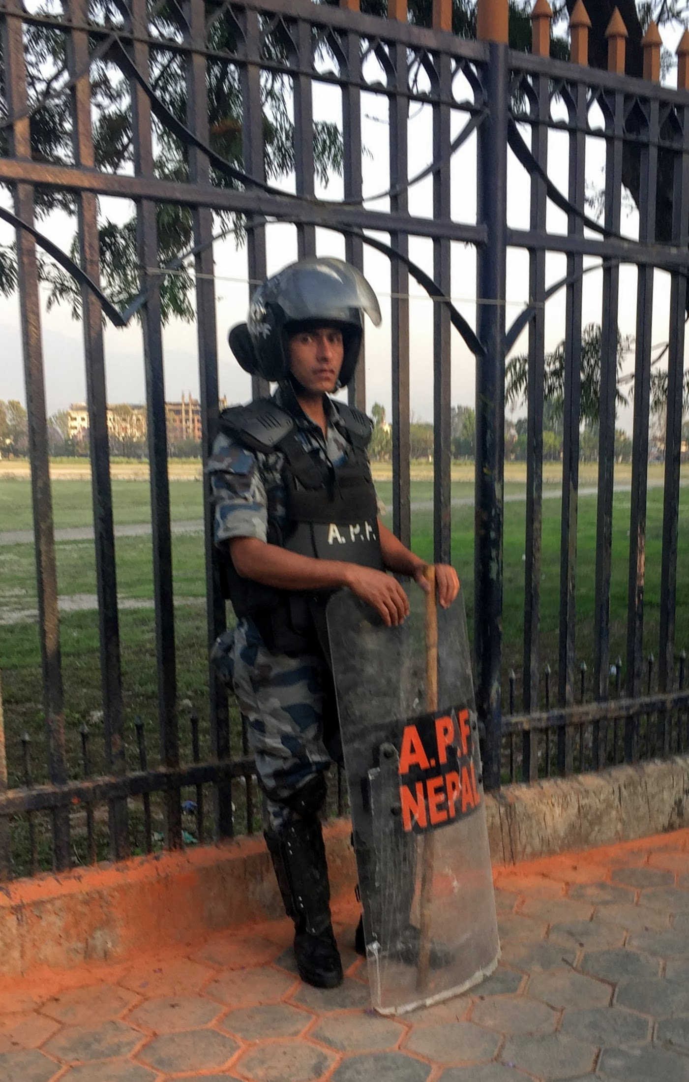 An Armed Police Force of Nepal personnel in front of Tundikhel ground in Kathmandu, Nepal during the visit of Indian Prime Minister Narendra Modi.